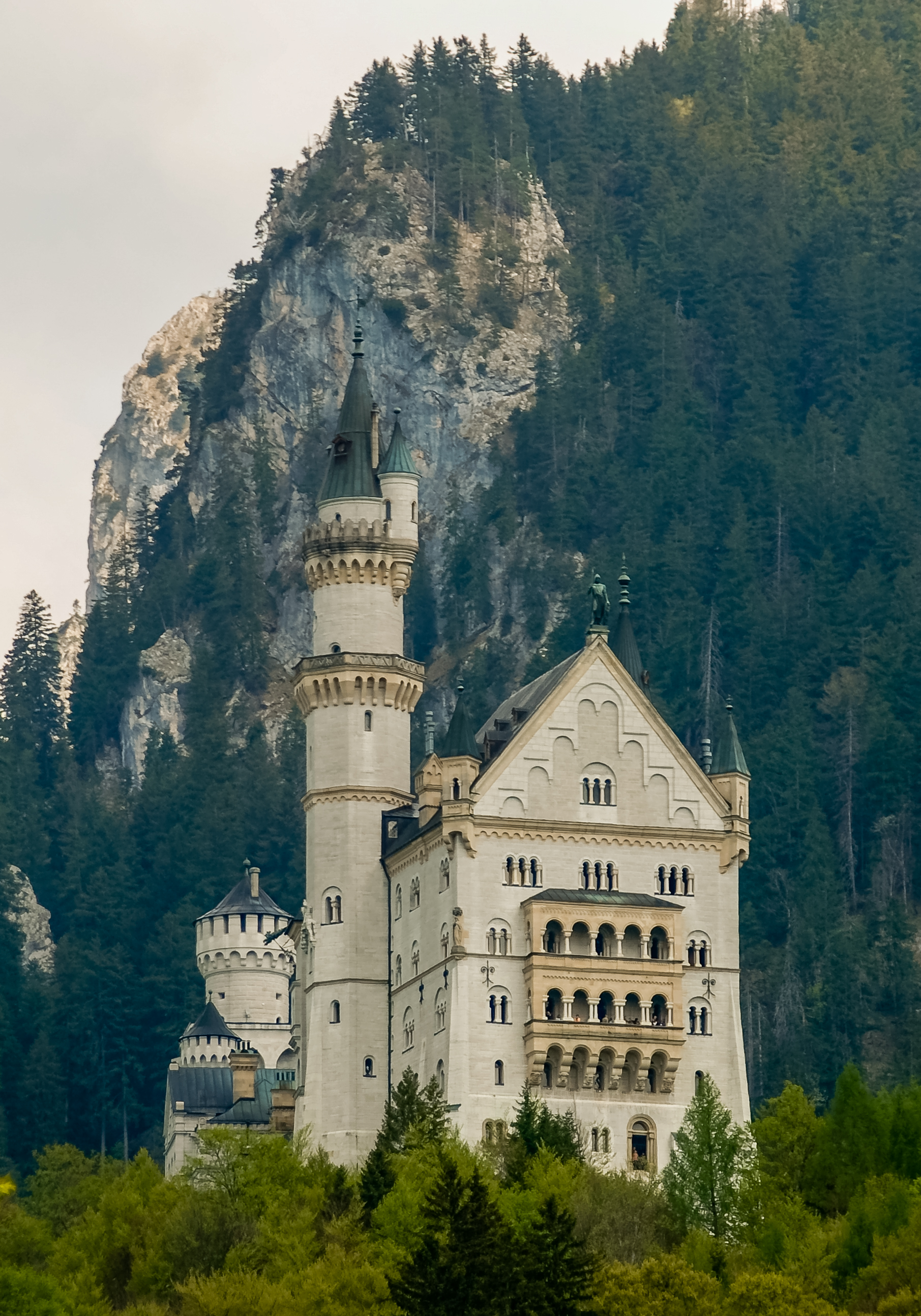 Neuschwanstein Castle in in southwest Bavaria, Germany.